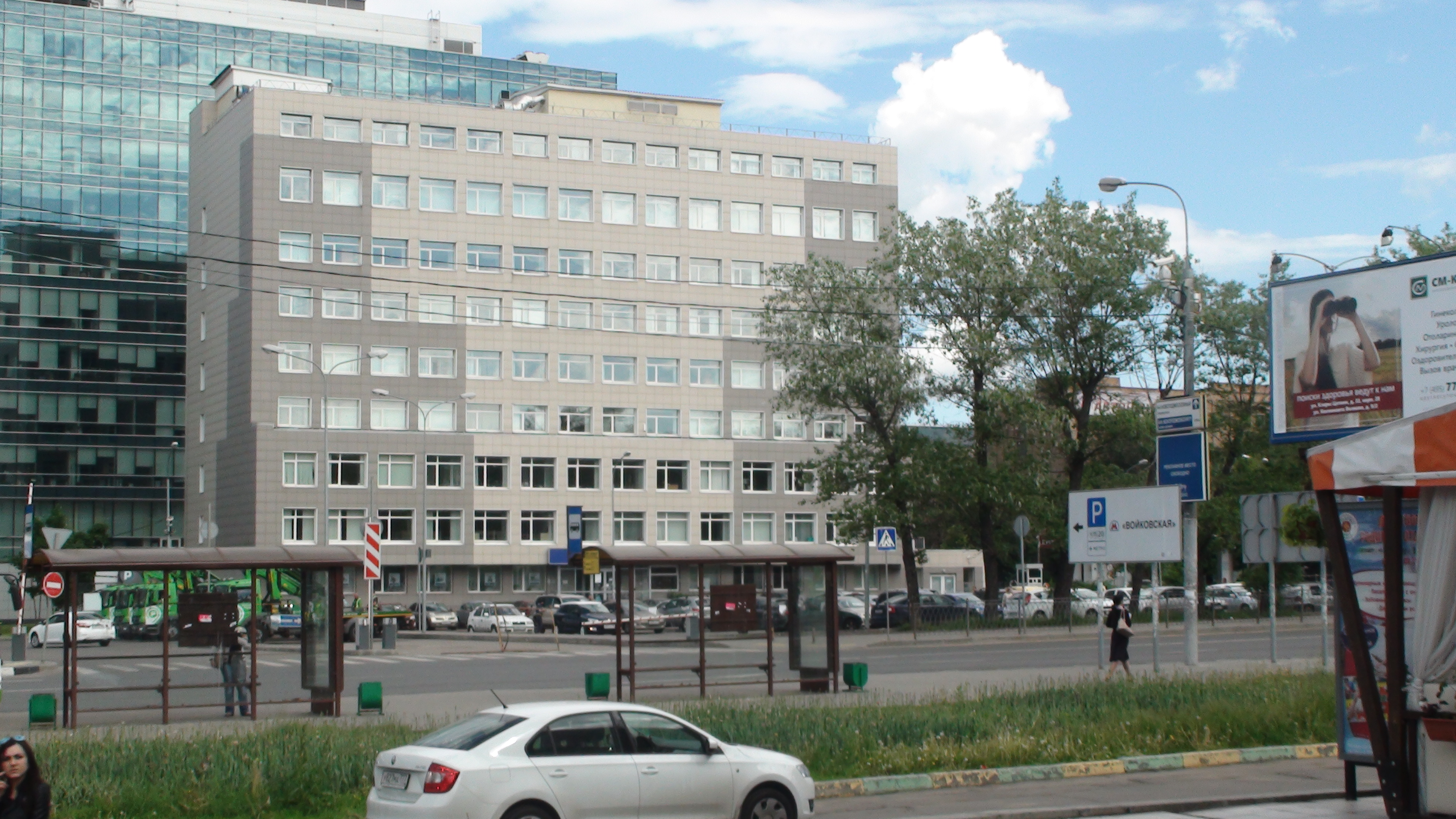 Ganetskogo Square